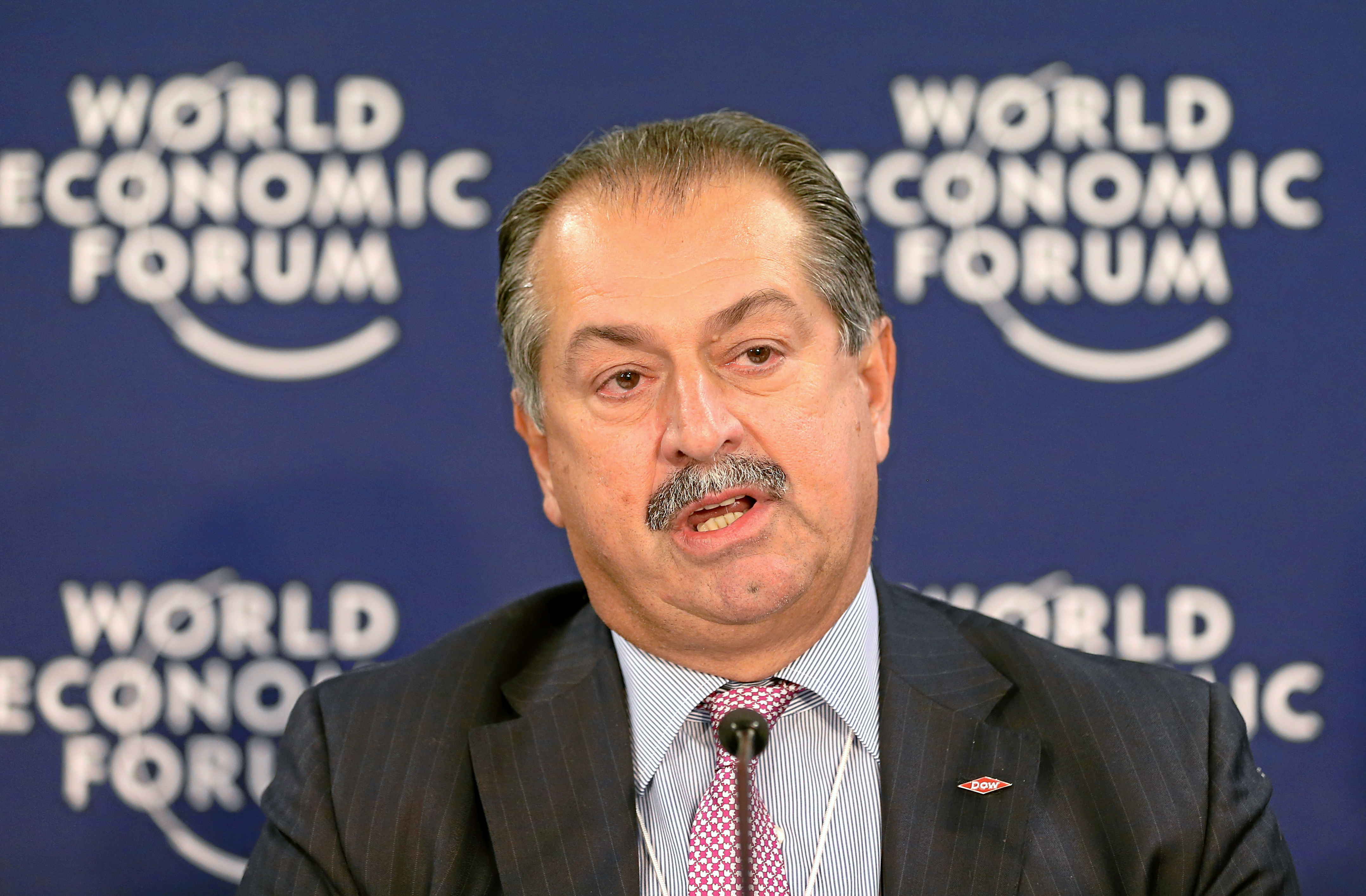 DAVOS/SWITZERLAND, 23JAN13 - Andrew N. Liveris, Chairman and Chief Executive Officer, The Dow Chemical Company, USA; Co-Chair of the World Economic Forum Annual Meeting 2013during the Opening Press Conference with Co-Chairs of the Annual Meeting 2013 at the Annual Meeting 2013 of the World Economic Forum in Davos, Switzerland, January 23, 2013.. . Copyright by World Economic Forum. . Moritz Hager